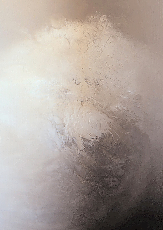 Planum Australe, taken by Mars Global Surveyor. Image credit: NASA/JPL/MSSS. Was Astronomy Picture of the Day on 13 December 2001, source: [1].